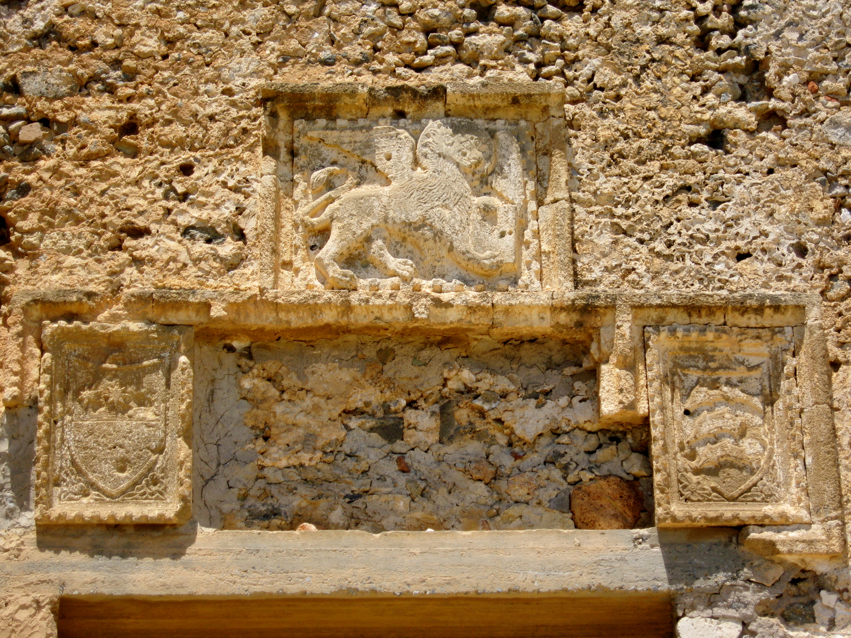 Lion of Saint Mark, the symbol of the Republic of Venice, at Frangokastello, Dimos Sfakia, Nomos Chania, Crete, Greece (a one-time possession by Venice)